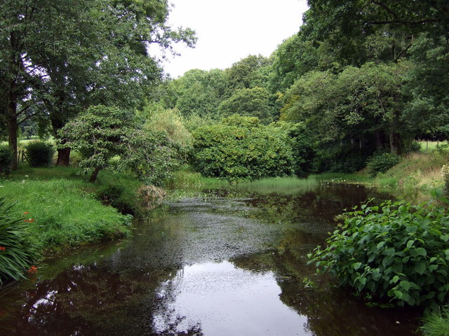 Ornamental water features at Old Cilgwyn One of a series of pools in this beautiful woodland garden, open to the public by appointment or for fund-raising days. The rhododendrons, when in bloom, are a special attraction.